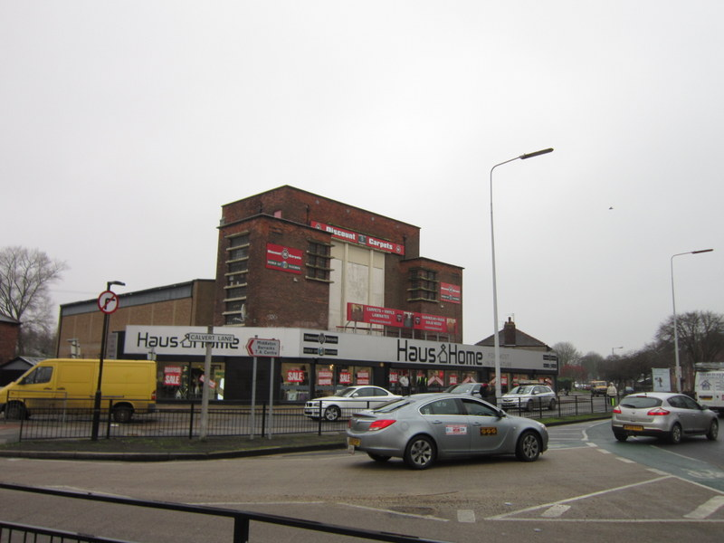 The former Priory cinema on Spring Bank West in East Ella, Hull; England